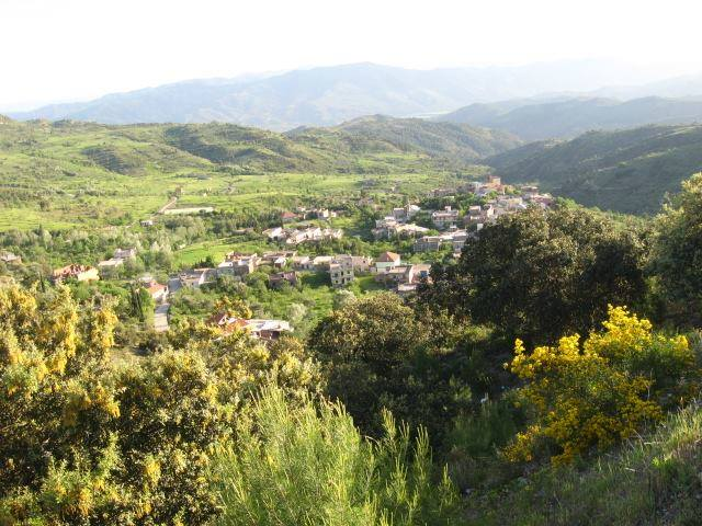 this is the most beautiful town of Algeria and cleaner.